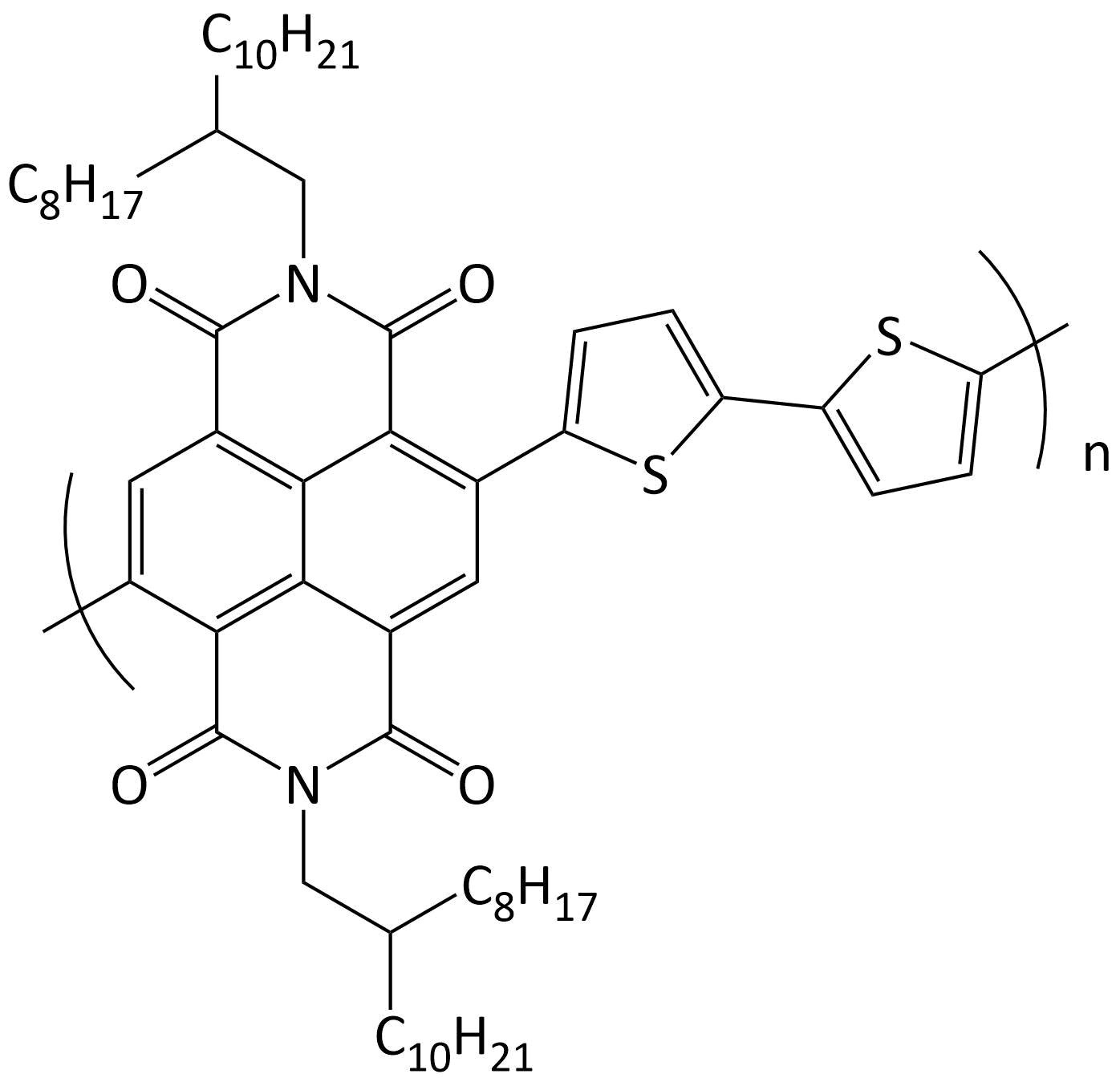 Chemical structure of P(NDI2OD-T2) polymer